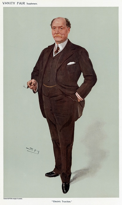 Men of the Day No.1157: Caricature of Sir Clifton Robinson. Caption reads: "Electric Traction"